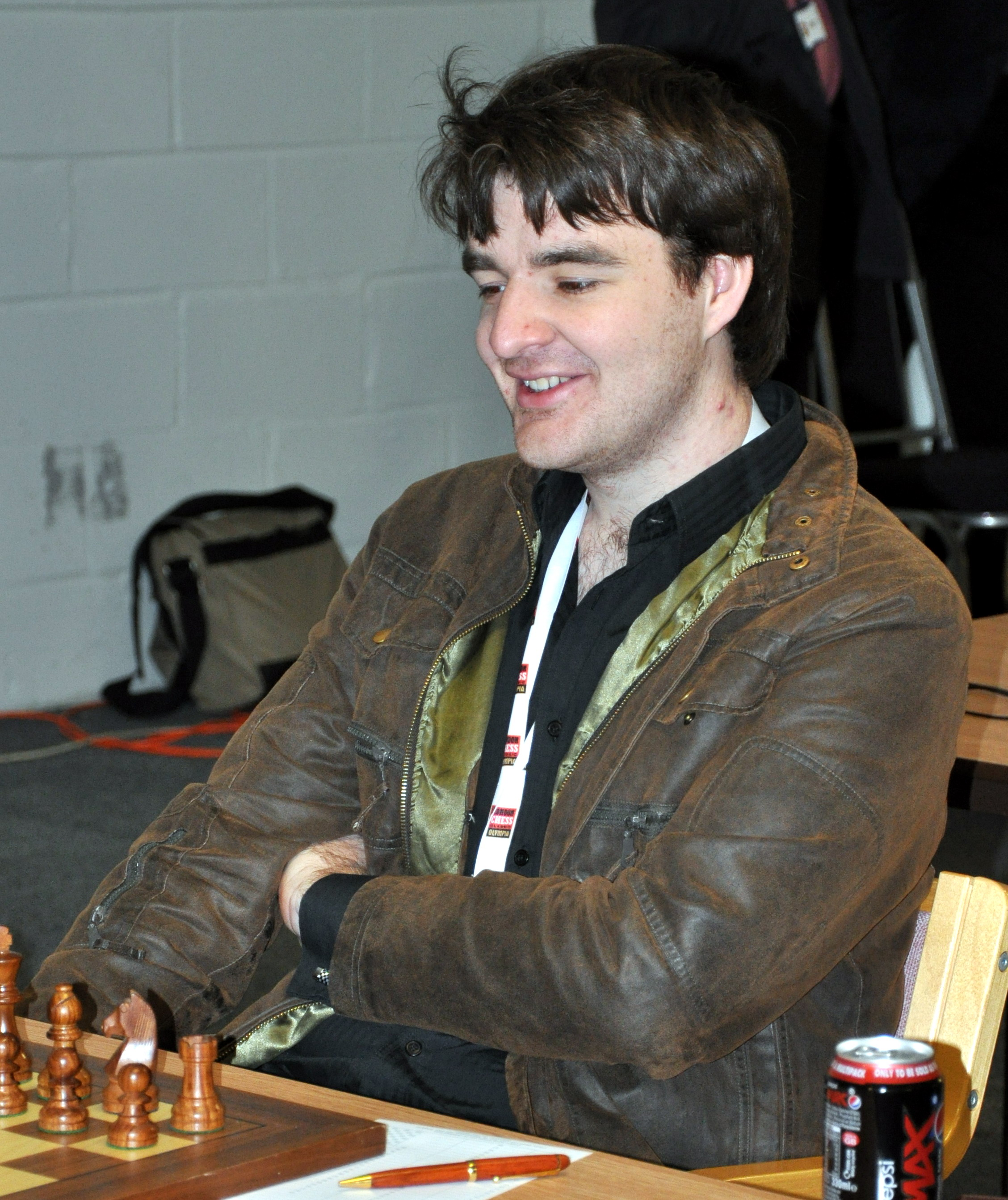 Gawain Jones - London Chess Classic 2010